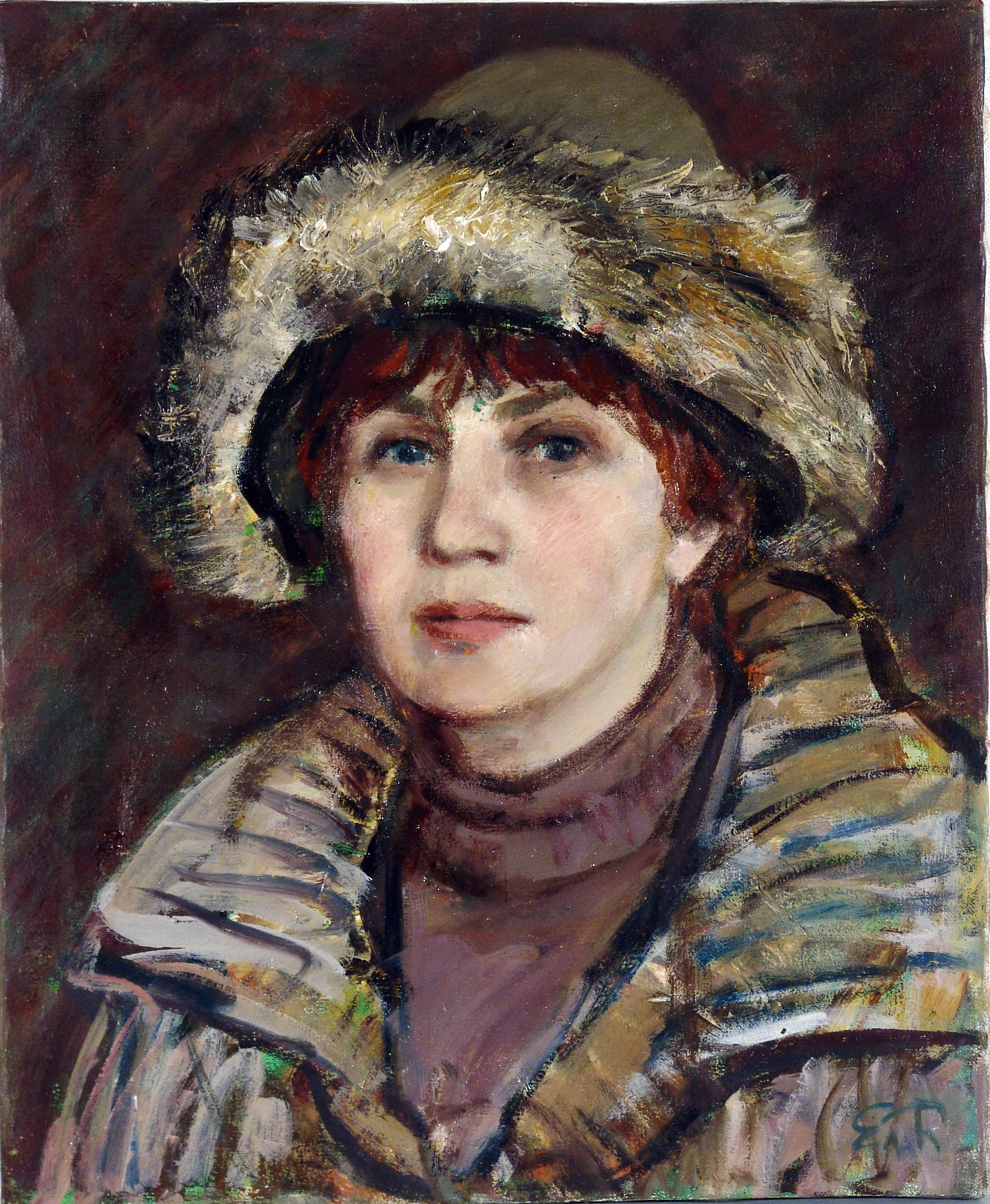 Elena Boteva selfportrait